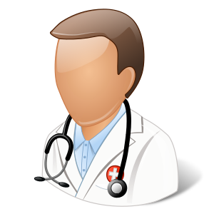 Doctor white coat